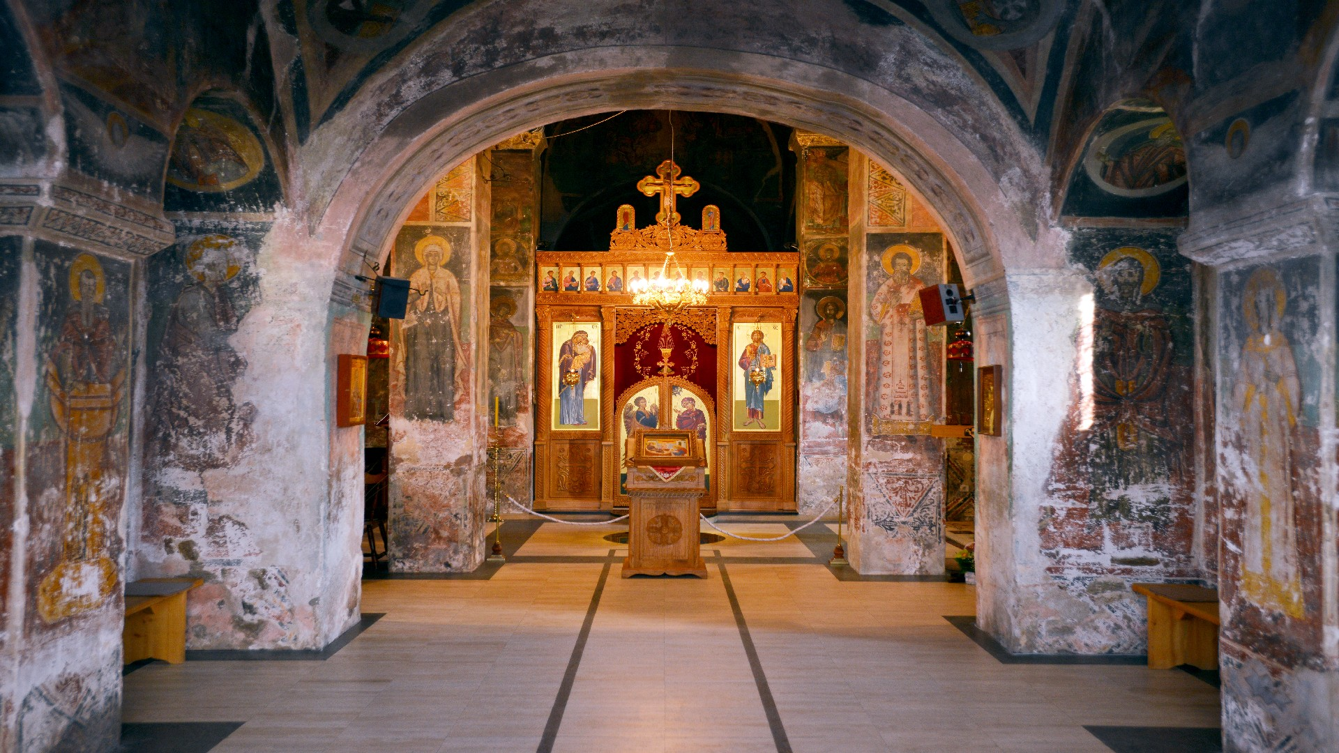 Naos in Mesić monastery